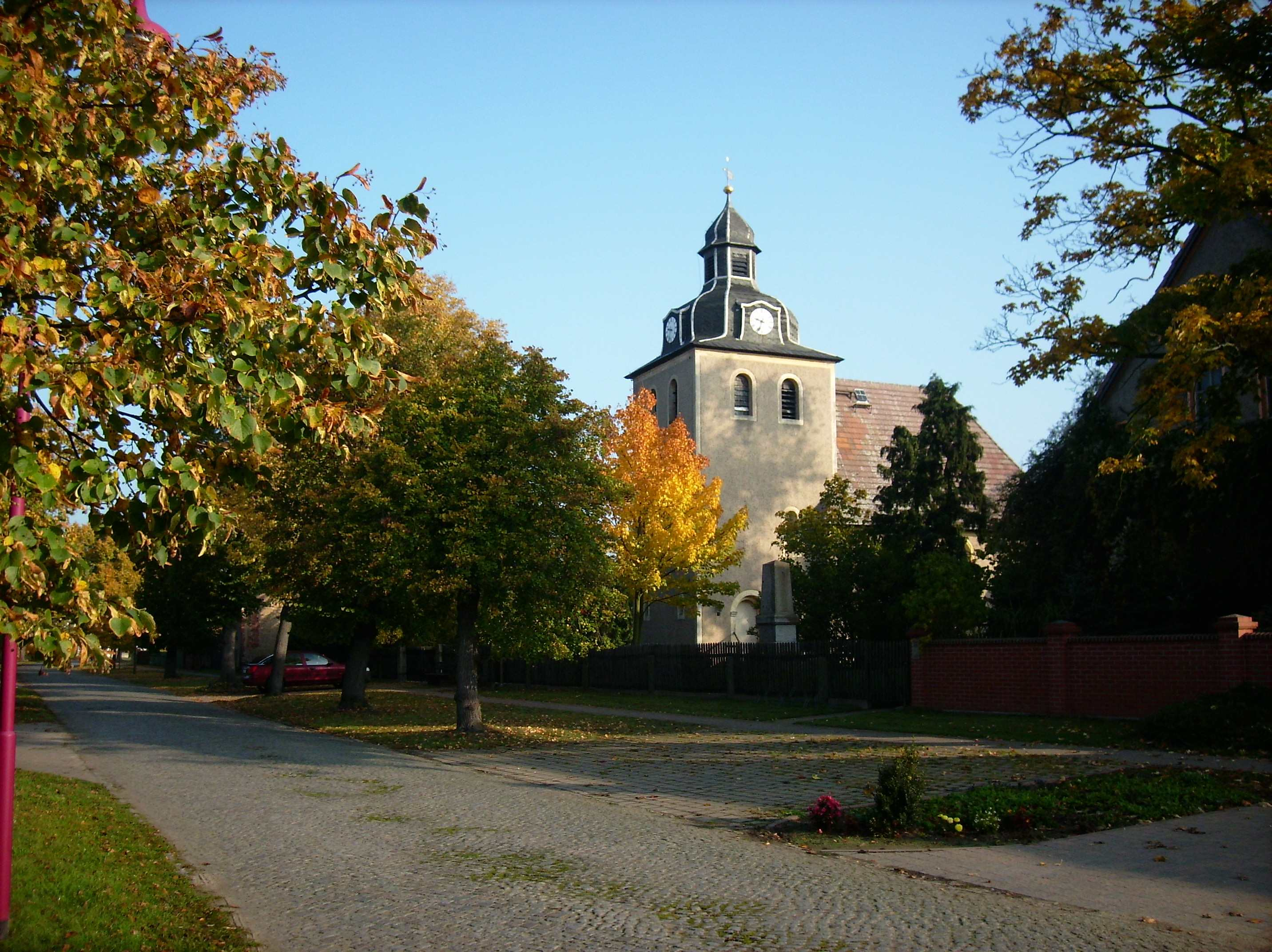 Church of the village of Rehfeld (Falkenberg/Elster, Elbe-Elster district, Brandenburg)